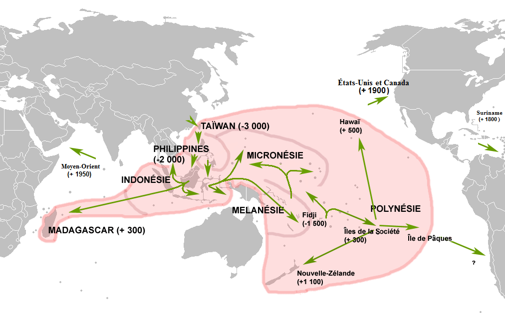 Austronesian languages map.